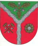 Coat of arms of the town Hergenroth